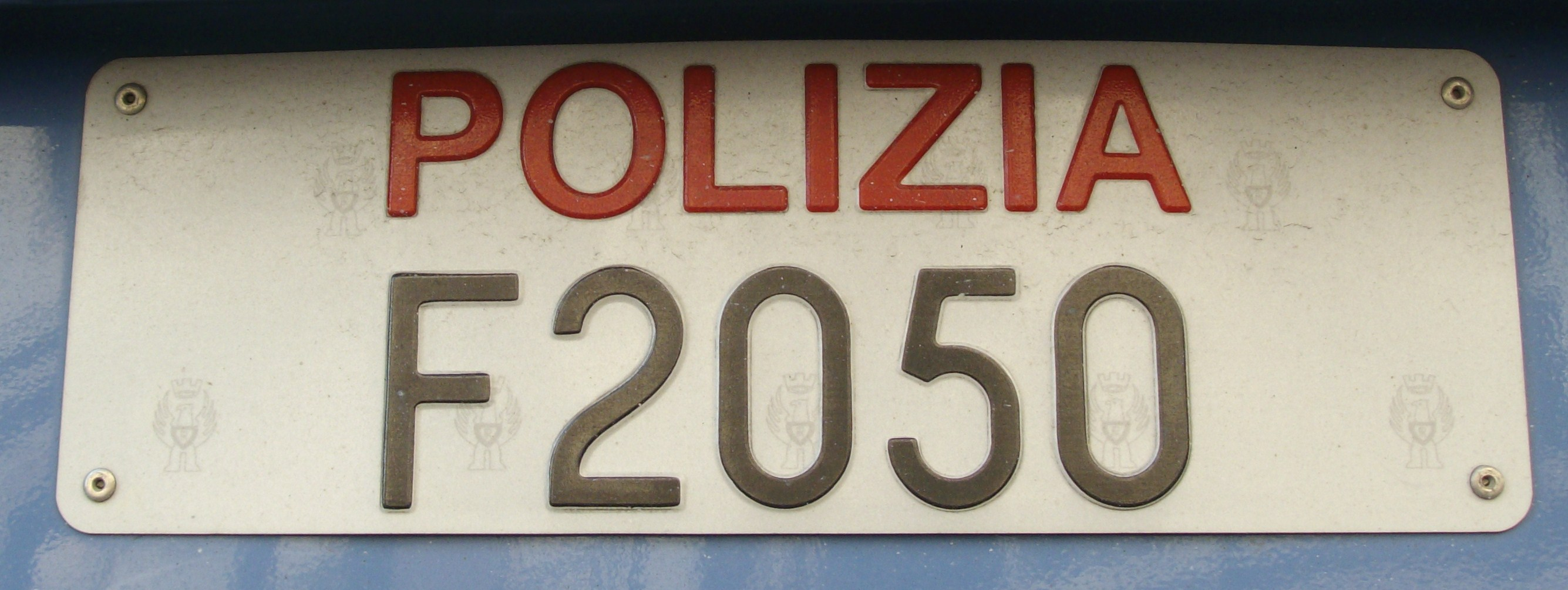 Italy, Targhe automobilistiche italiane. The registration plate for the Italian State Police.